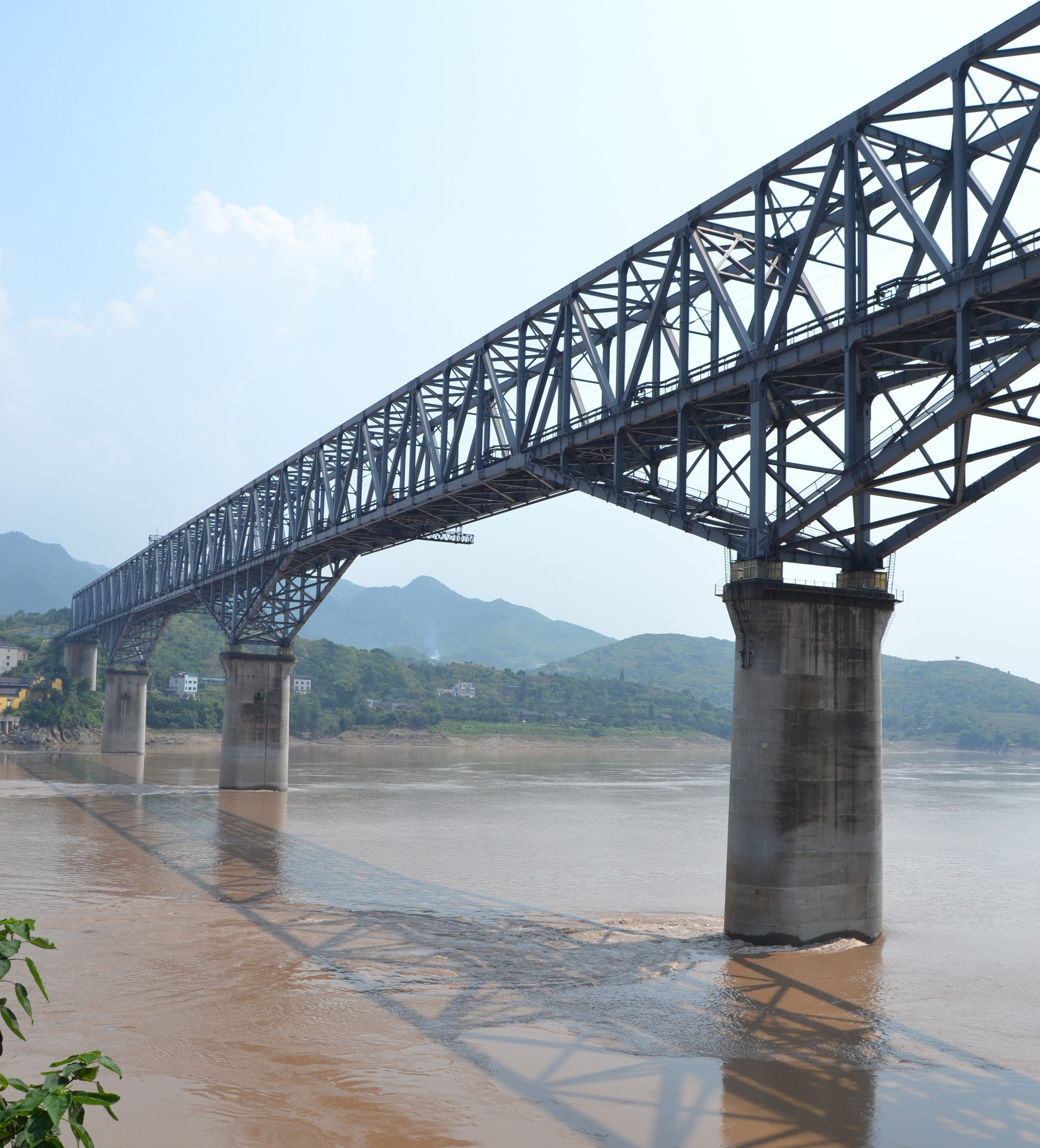 The Changshou Yangtze River Railroad Bridge in Chongqing municipality, China